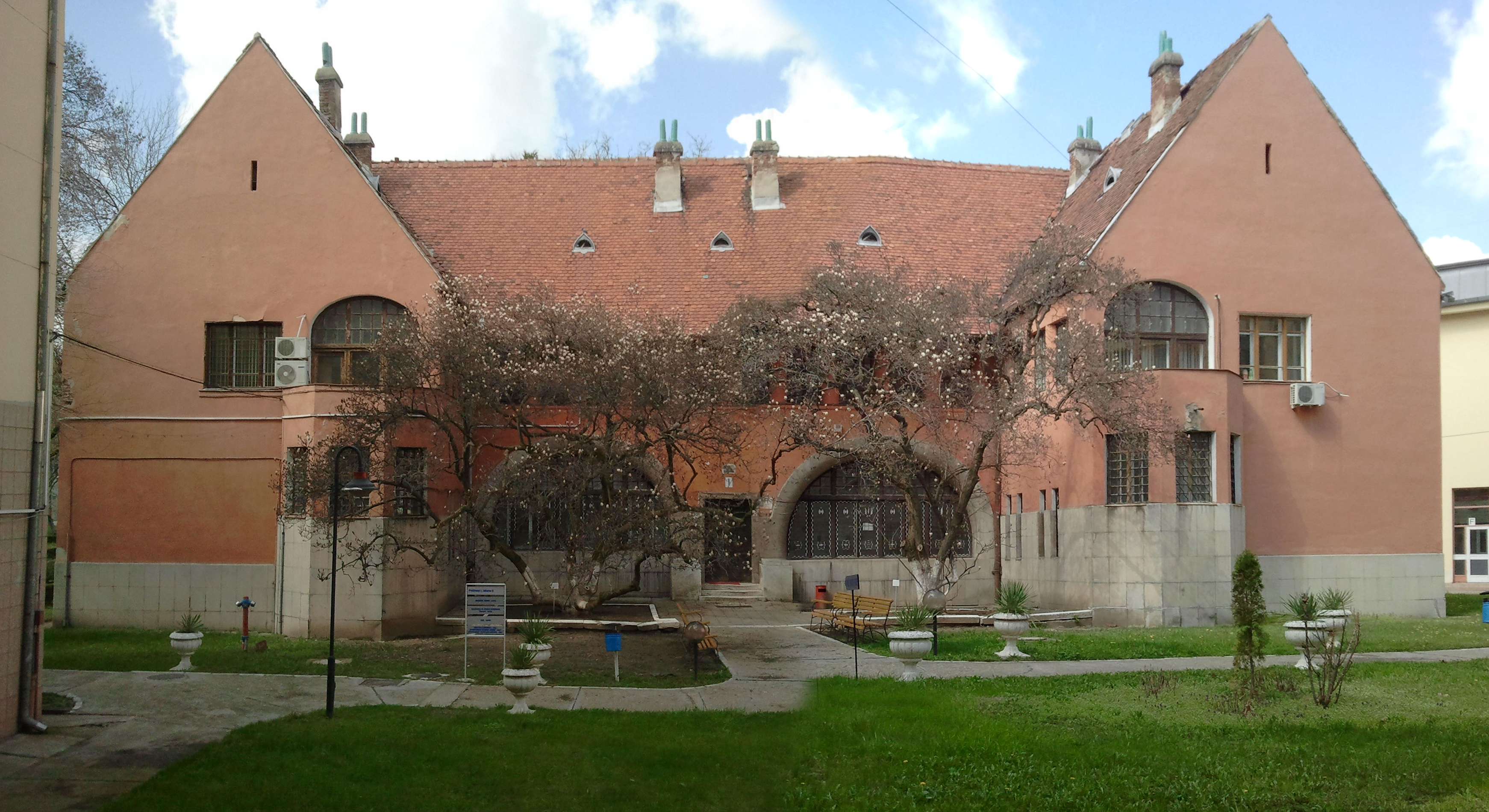 University of Oradea - Buliding I